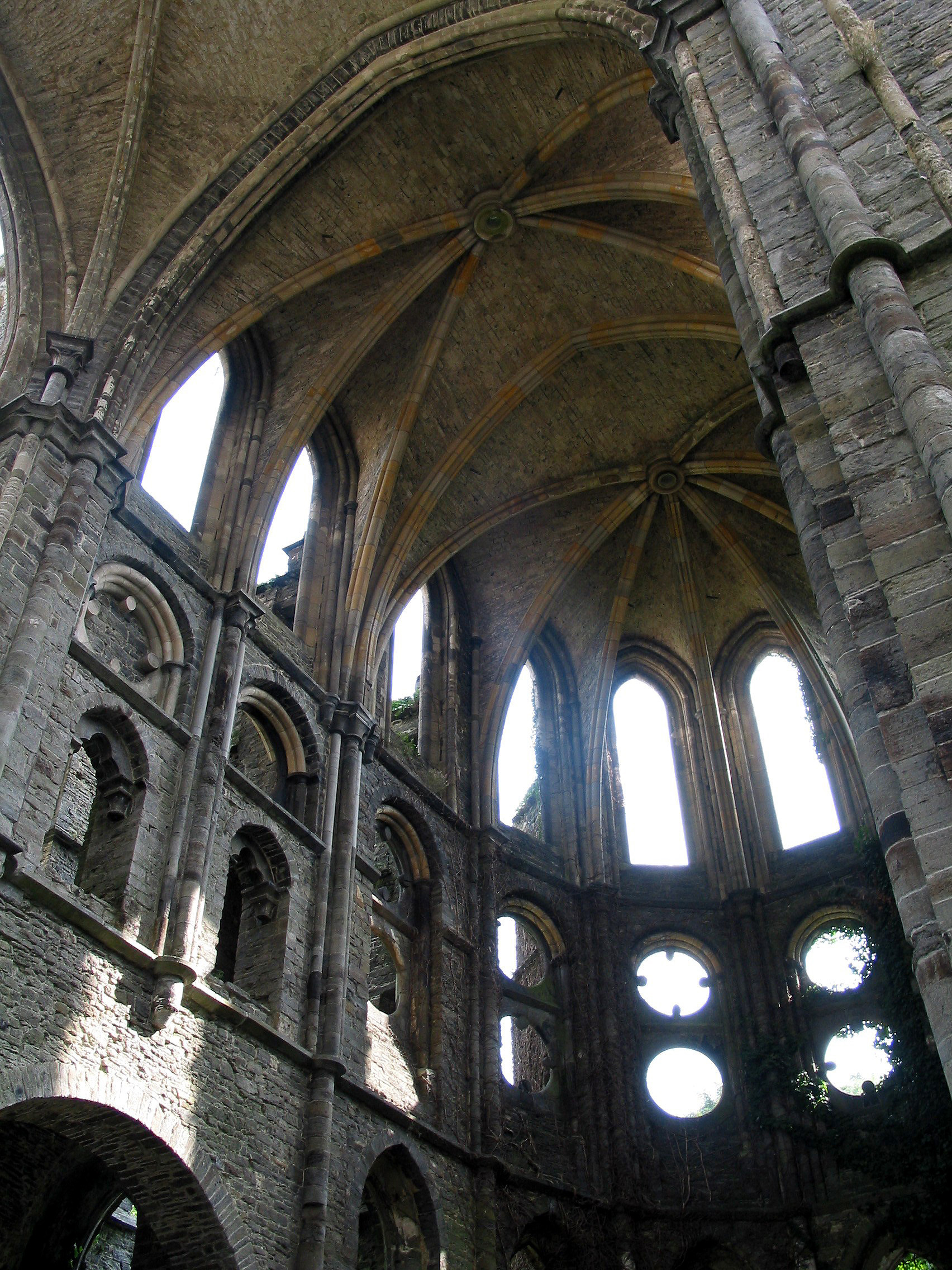 Villers-la-Ville (Belgium), ruins of the choir of the abbey church (XIIIth century).